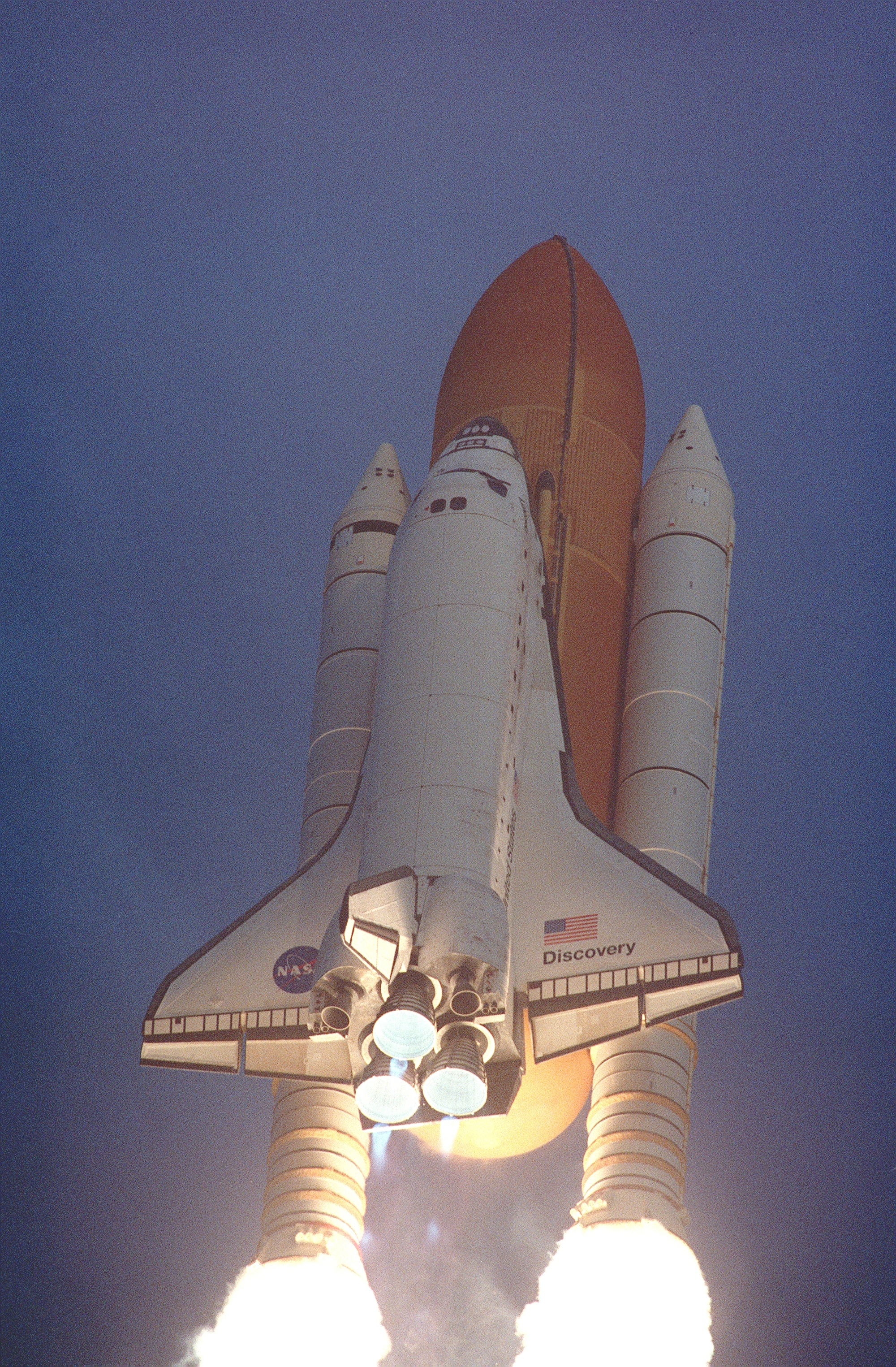 Low-angle view of Discovery's liftoff from Launch Pad 39B at 6:49:42 a.m. on May 27, 1999.